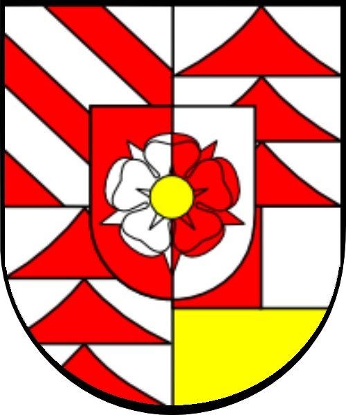 Coat of arms of Maria Thaddaus Trautmannsdorff, bishop of Hradec Králové, Czech Republic (1795 - 1815).